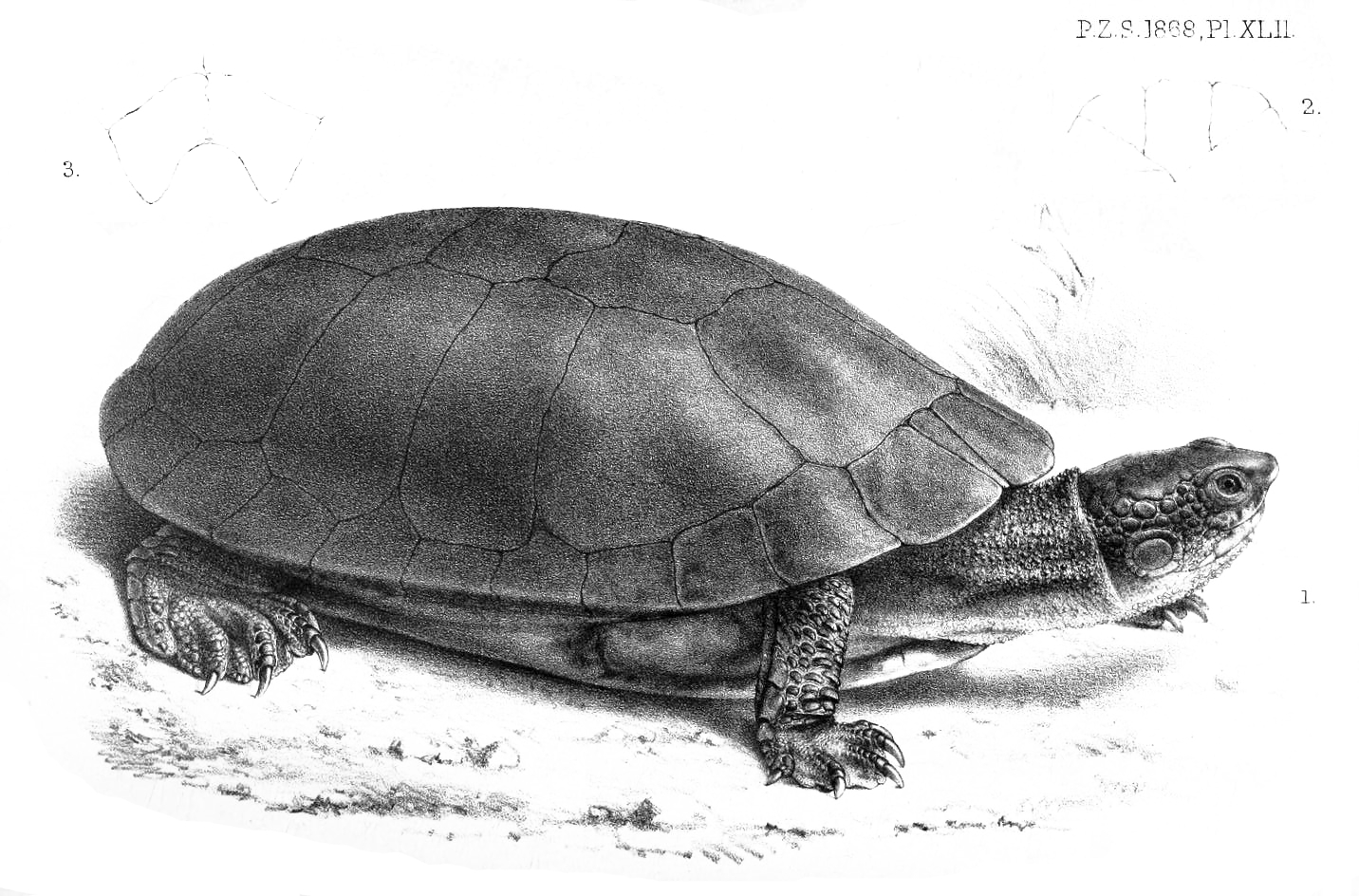 Gibba Turtle, adult (2: front end of plastron from ventral, 3: rear end of plastron from ventral)